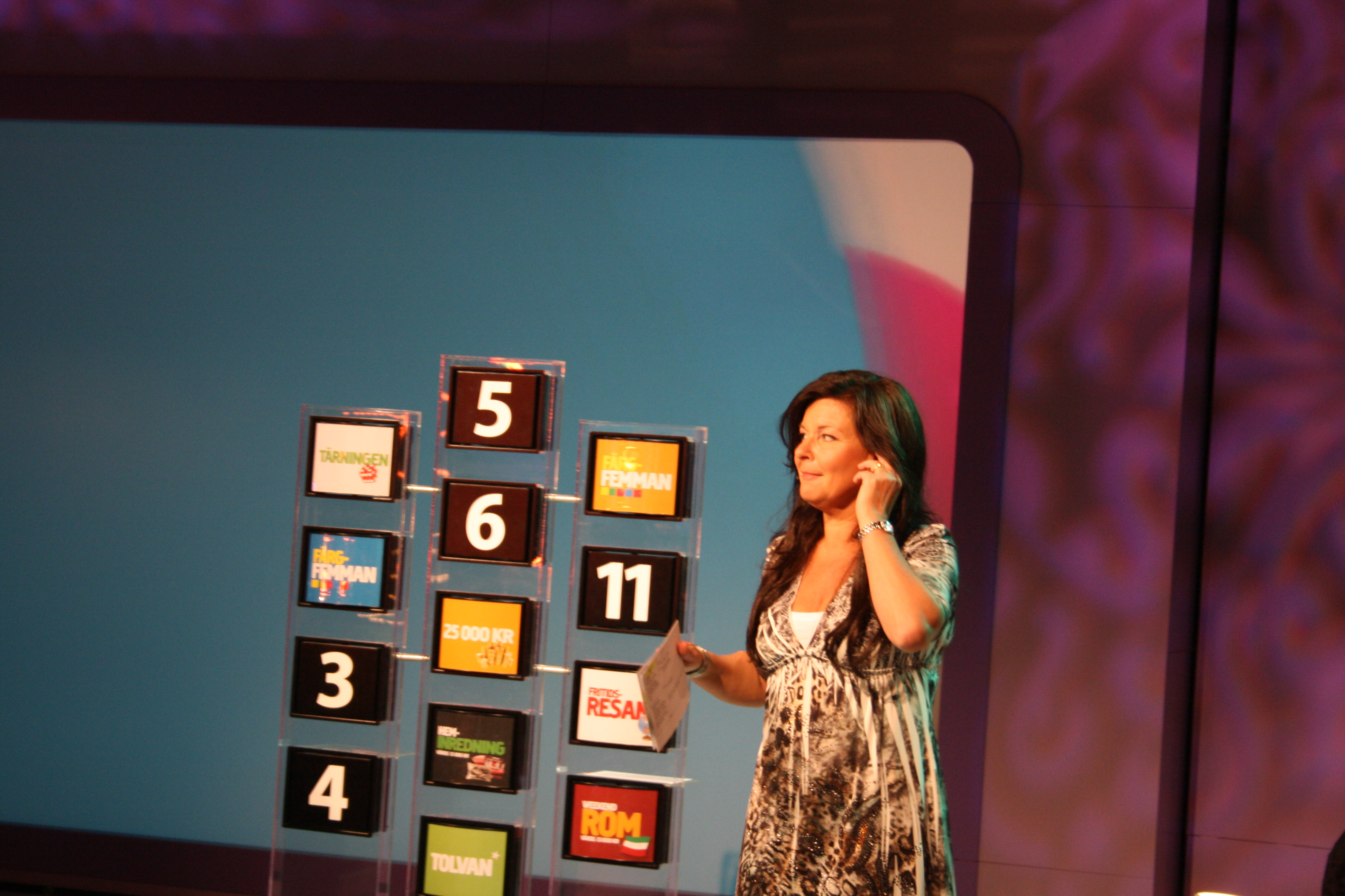 Bingolotto, #40.20